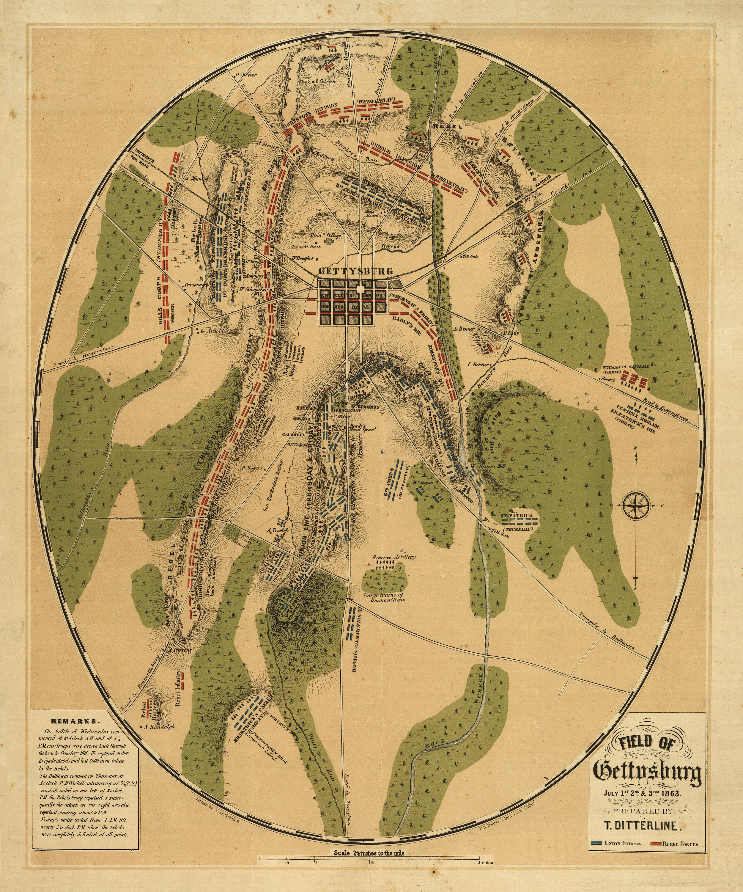 This oval-shaped map depicts Gettysburg Battlefield during July 1st, 2nd & 3rd, 1863. Prepared by Theodore Ditterline and published by Philada. P. S. Duval & Son lith. in 1863, the map reveals the troop and artillery positions and movements, relief by hachures, drainage, roads, railroads, and houses with the names of residents at the time of the Battle of Gettysburg. This map was featured on the front page of the Library of Congress Civil War maps website on and around August 16, 2008. NOTES: Scale ca. 1:25,500,. Reference: LC Civil War Maps (2nd ed.), 331. From his Sketch of the battles of Gettysburg . . . New York, C. A. Alvord, 1863. 24 p.; Medium: 1 map col. 49 x 40 cm.; Call Number: G3824.G3S5 1863 .D42 CW 331; Repository: Library of Congress Geography and Map Division Washington, D.C. 20540-4650